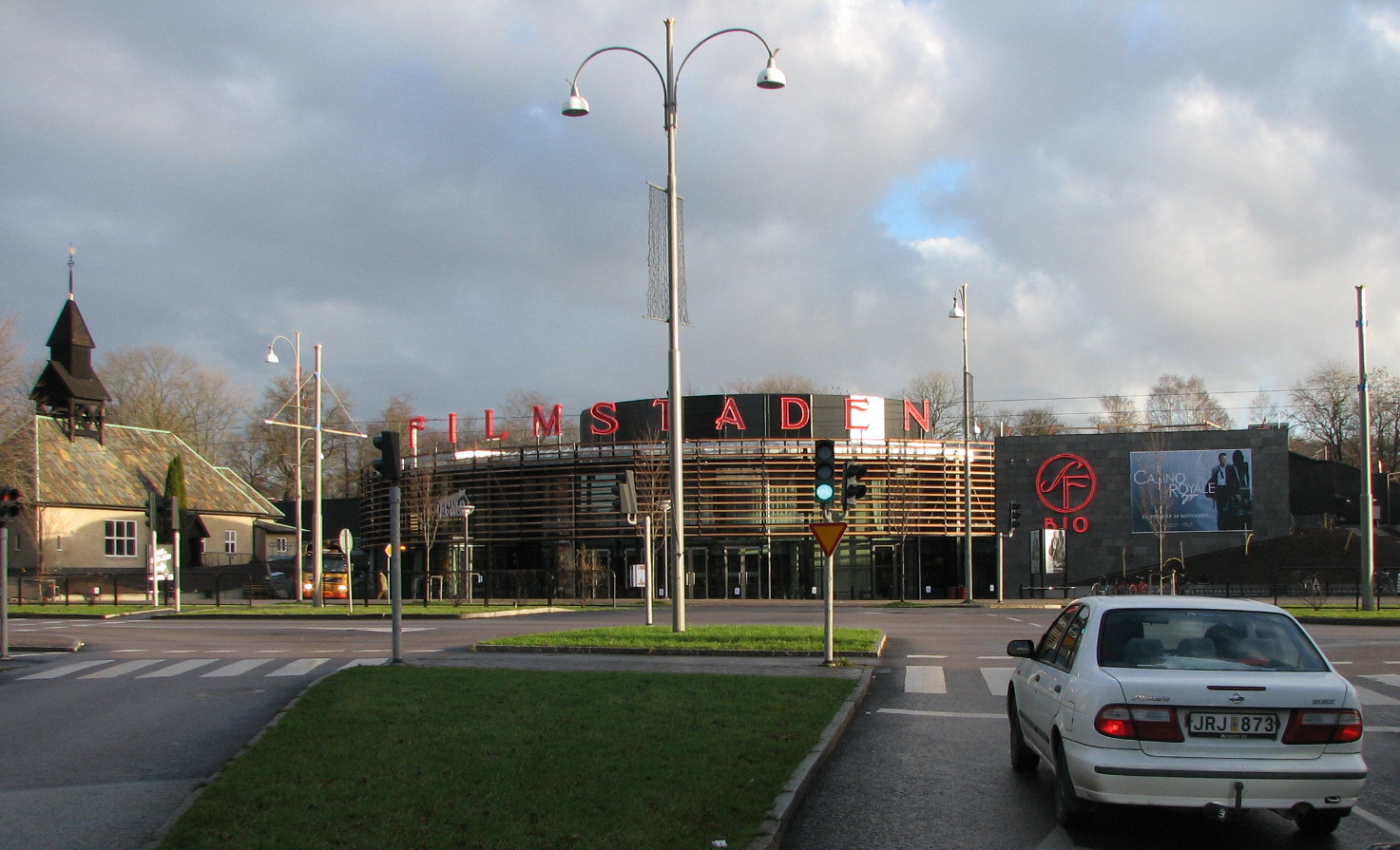 Entrance to the cinema Filmstaden Bergakungen in Goteborg.